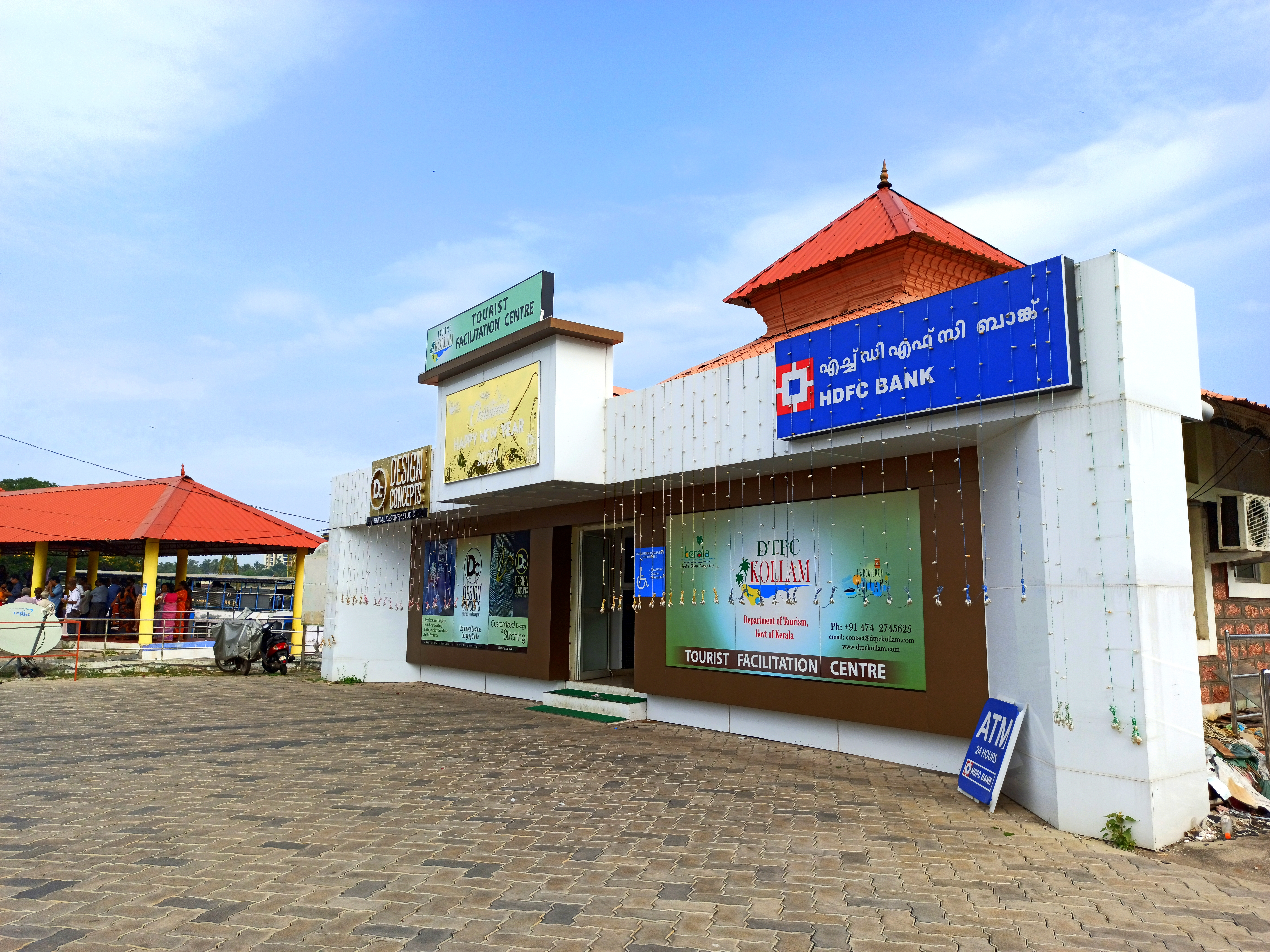 Gateway to the Backwaters-1, Near KSRTC, Kollam: Kollam is Known as the Gateway to the Backwaters of Kerala